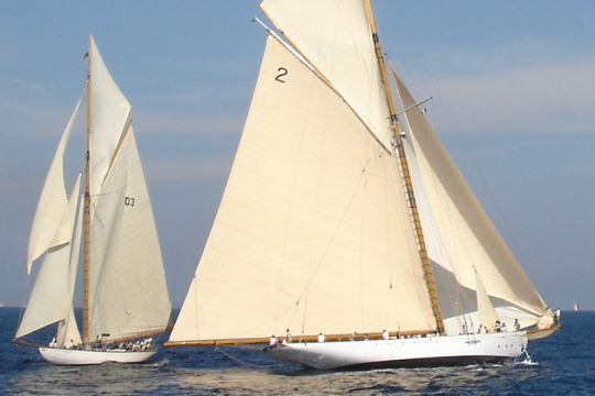 Régates Royales, Cannes, France (2006)This image portrays three "classic" sailing yachts in race. From left to right: S/Y Tuiga (IYRU 15 Metre Rule/D-Class, gaff-rigged cutter, 1909 build, William Fife III design, sail number D3) S/Y Lulworth (British Big Class, gaff-rigged cutter, 1920 build, Herbert William White design, sail number 2) S/Y Cambria (International 23 Metre Rule/Universal Rule J-Class/British Big Class, bermuda-rigged cutter, 1928 build, William Fife III design, sail number K4) In this picture taken on the fifth and last day of racing, Cambria had overtaken Lulworth at a buoy (behind the photographer), and a collision course between Tuiga and Lulworth forced the former to carry out an emergency tack and the latter to head up whilst under 500m² spinnaker run. aerial photographs in sequence